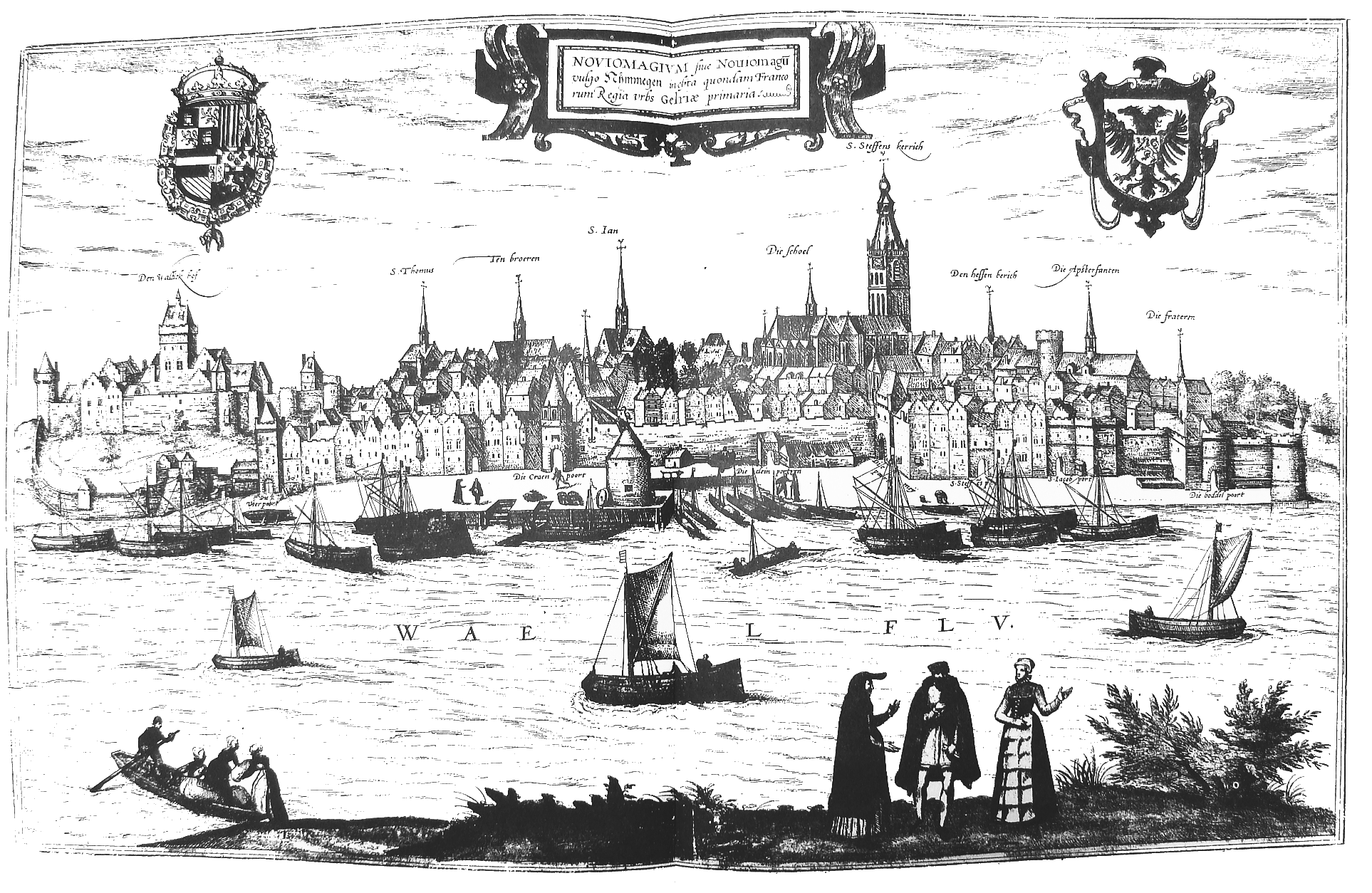 Panoramic view om Nijmegen, The Netherlands +- 1541